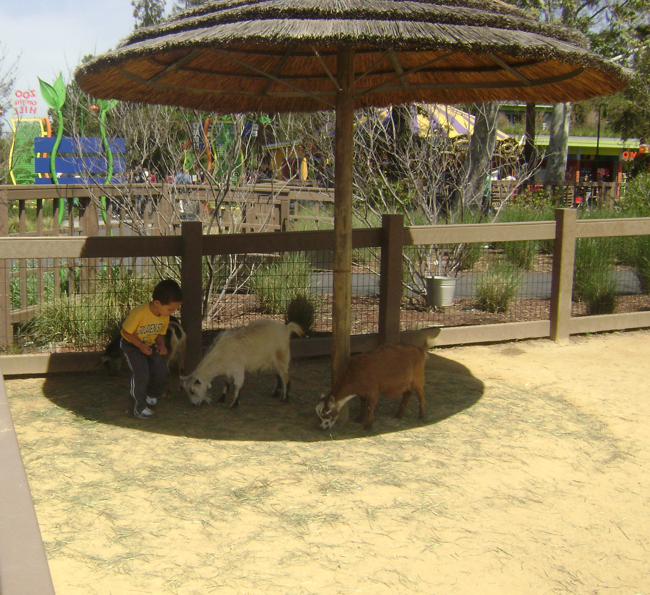 Happy Hollow Park & Zoo Petting Area